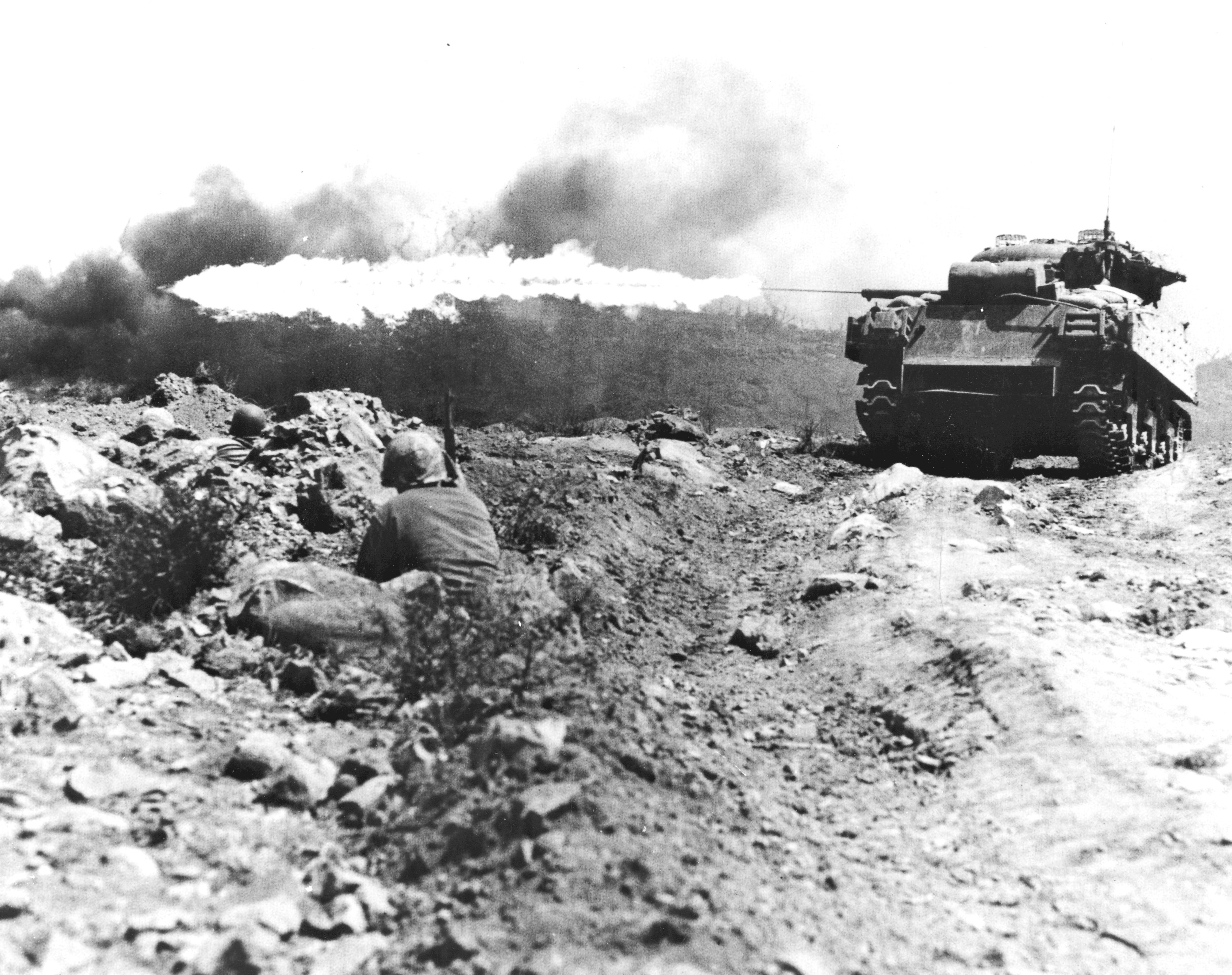 A Marine flame throwing tank, also known as a "Ronson", scorches a Japanese strongpoint. The eight M4A3 Shermans equipped with the Navy Mark 1 flame-thrower proved to be the most valuable weapons systems on Iwo Jima.